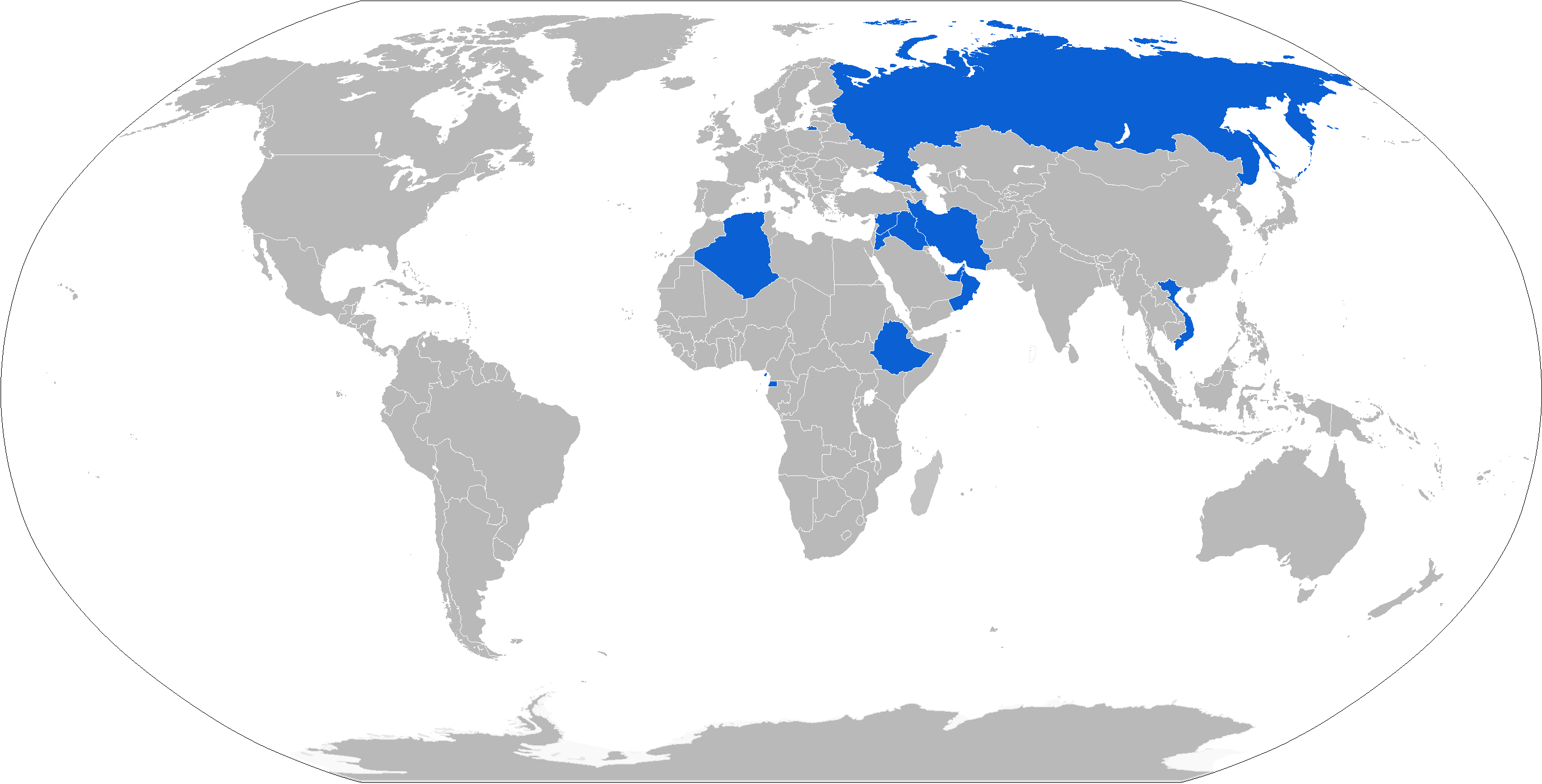 Map of Pantsir-S1 operators in blue